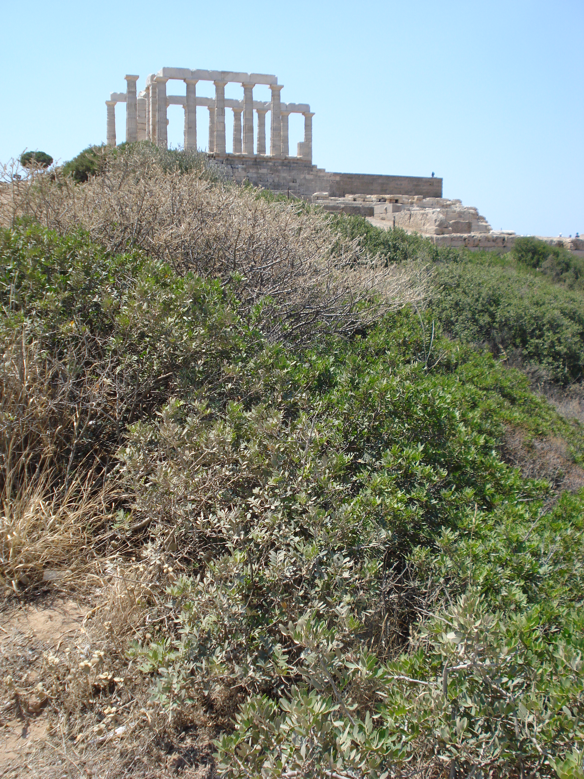 Flora in Cape Sounion, Greece, july 2010.